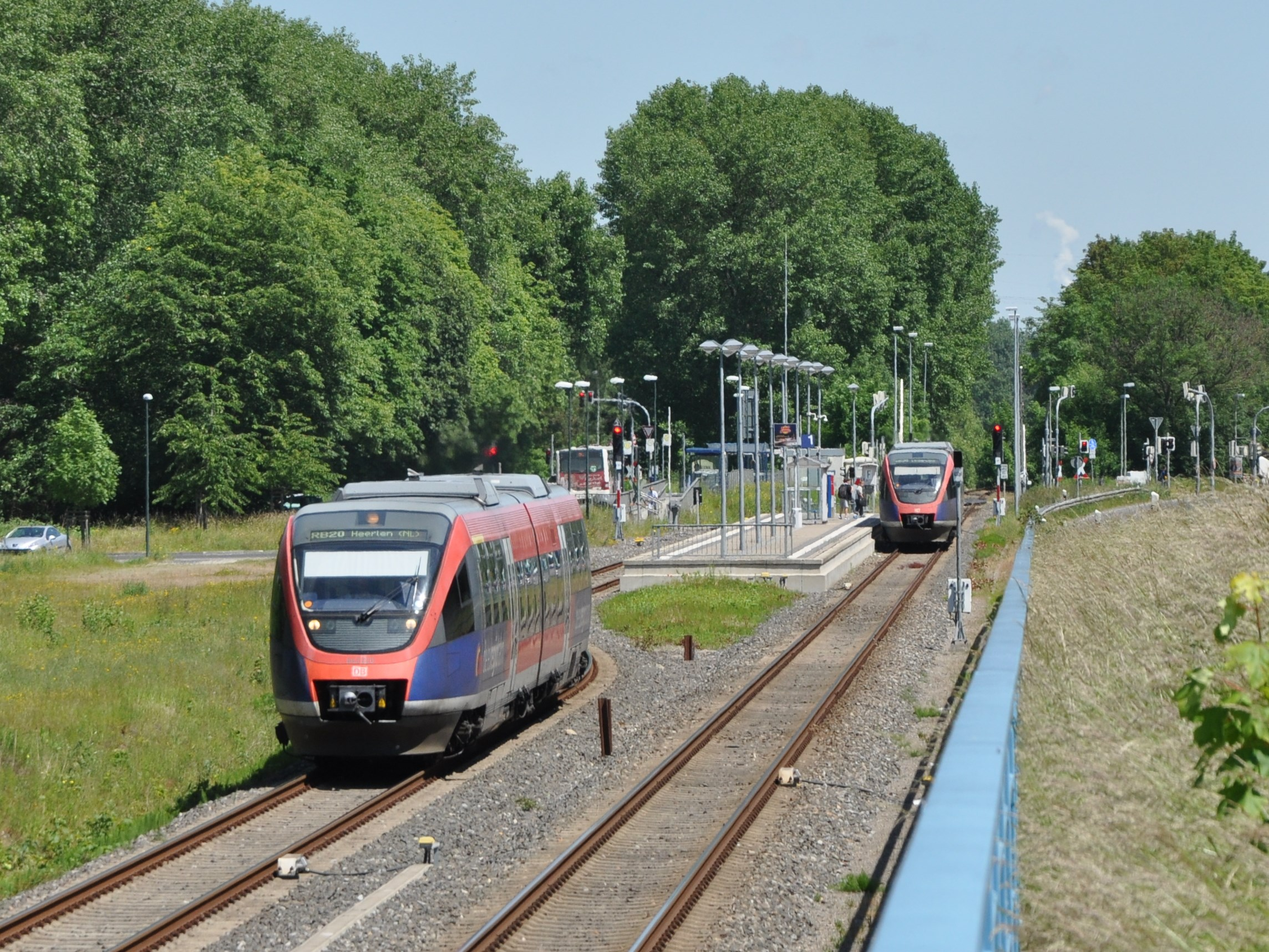 Two Talent DMUs of Euregiobahn meet in Weisweiler.